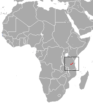 Telford's Shrew (Crocidura telfordi) range